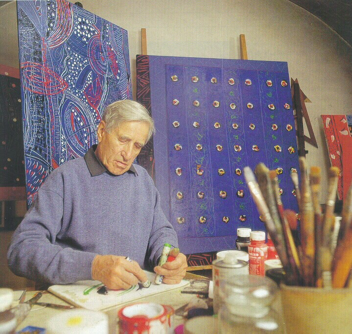 Lucas Suppin, painter in his atelier